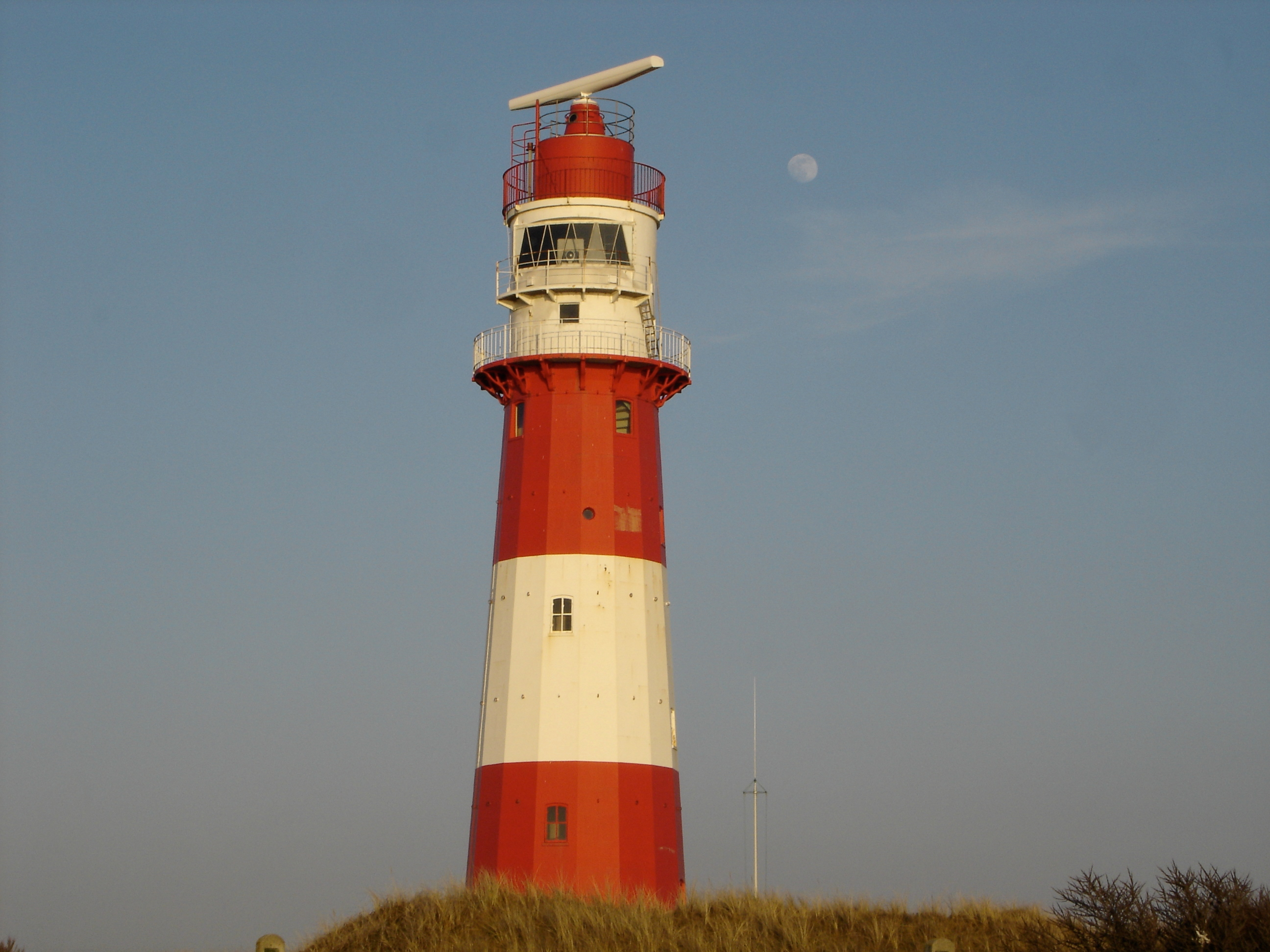 Electric Lighthouse on Borkum Island with moon in the background